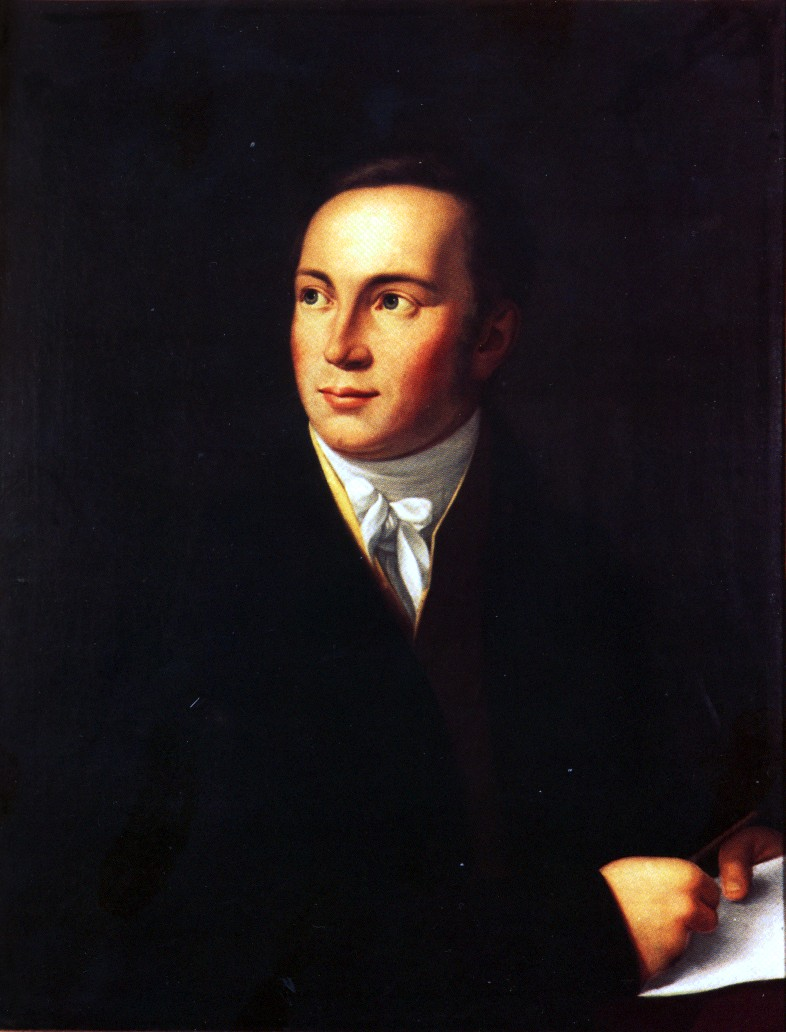 Öl auf Leinwand